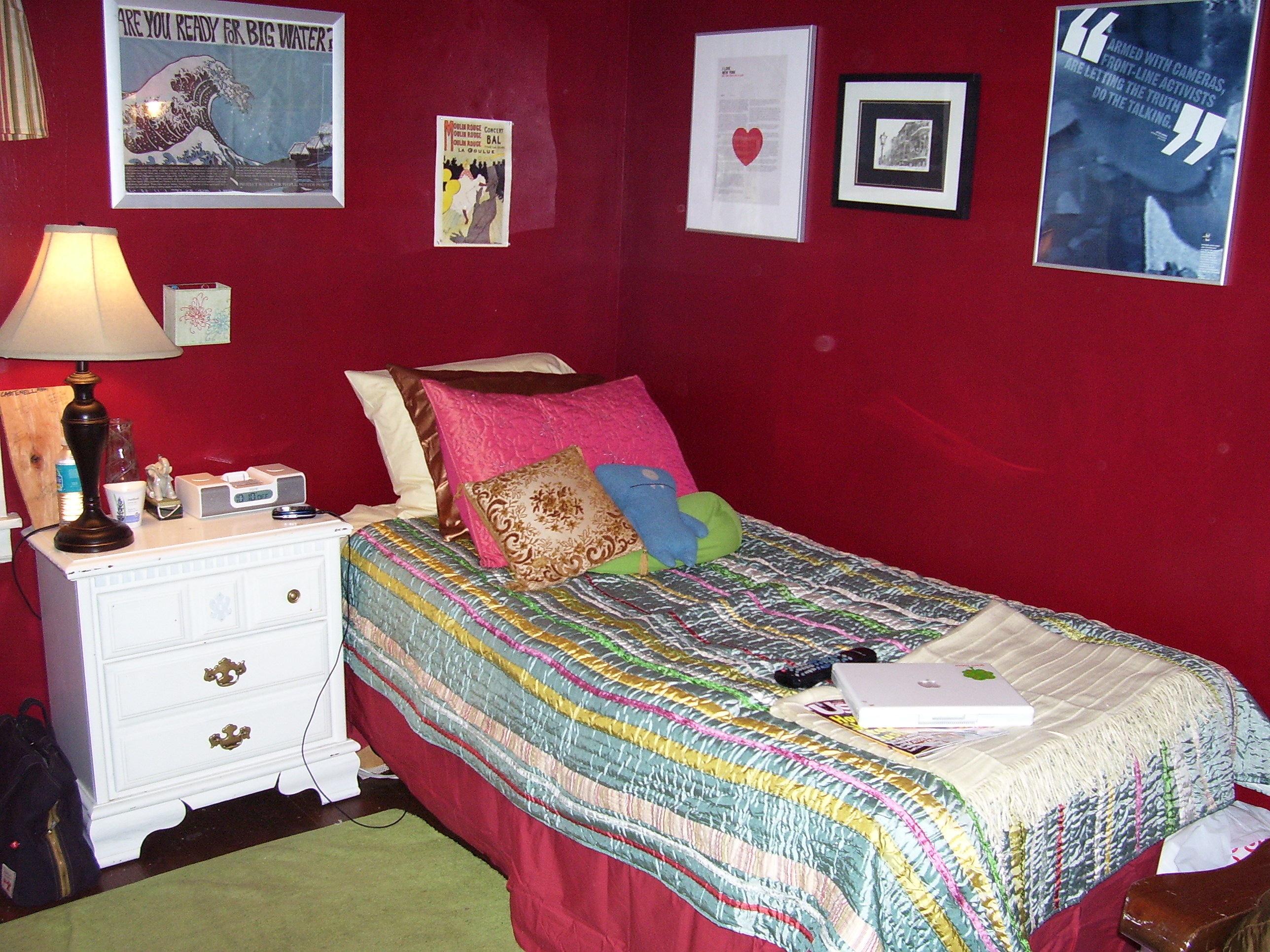 Domestic bedroom in Georgia, USA